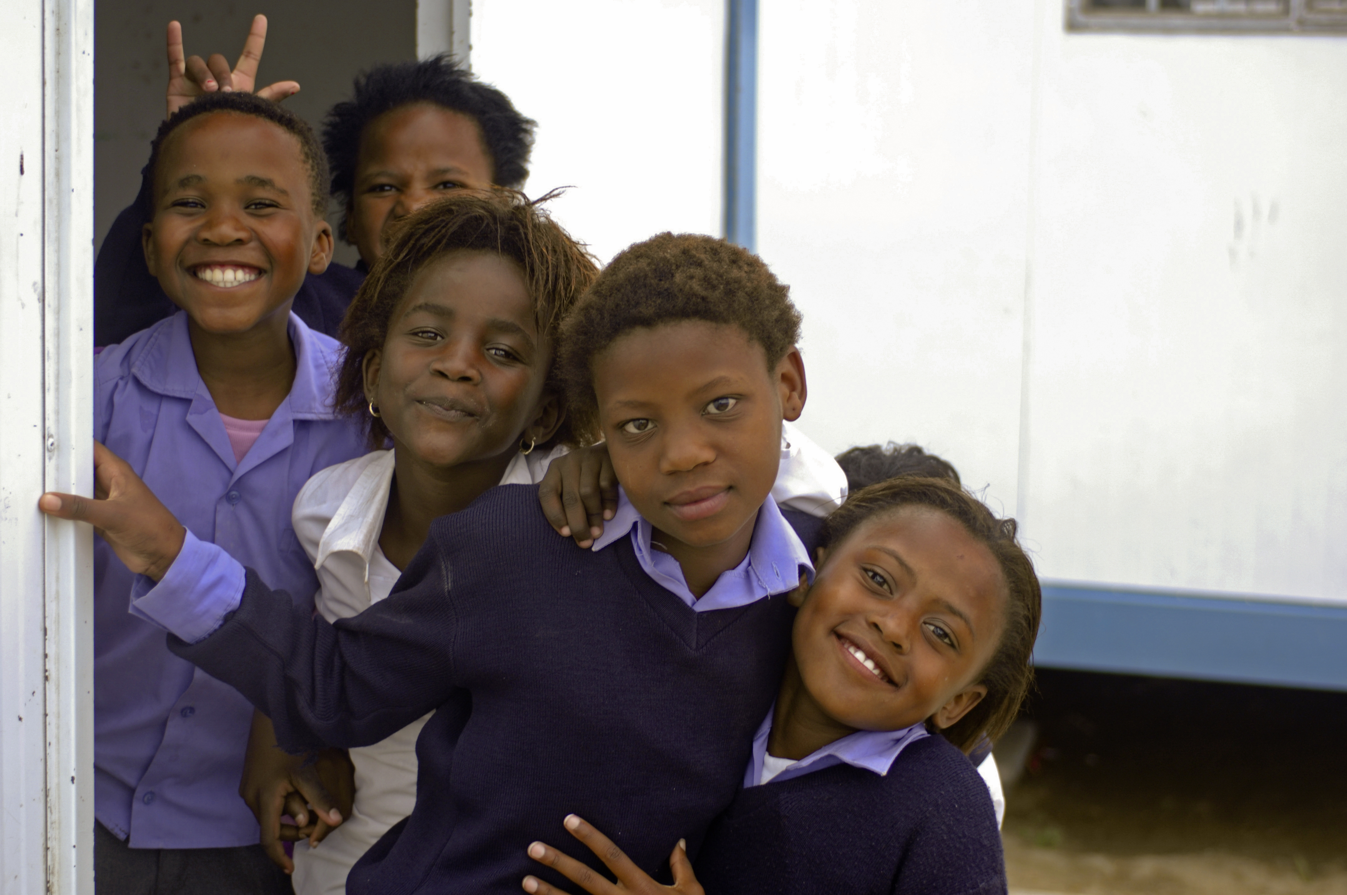 Students at the Lukhanyo Primary School. Located in the Zwelihle Township, within the city limits of Hermanus, in the Western Cape province of South Africa, the school serves the educational needs of the residents of the Zwelihle Township.[1][2] Photography of students was approved by the school principal and supervised by one of the school’s Deputy Principals.